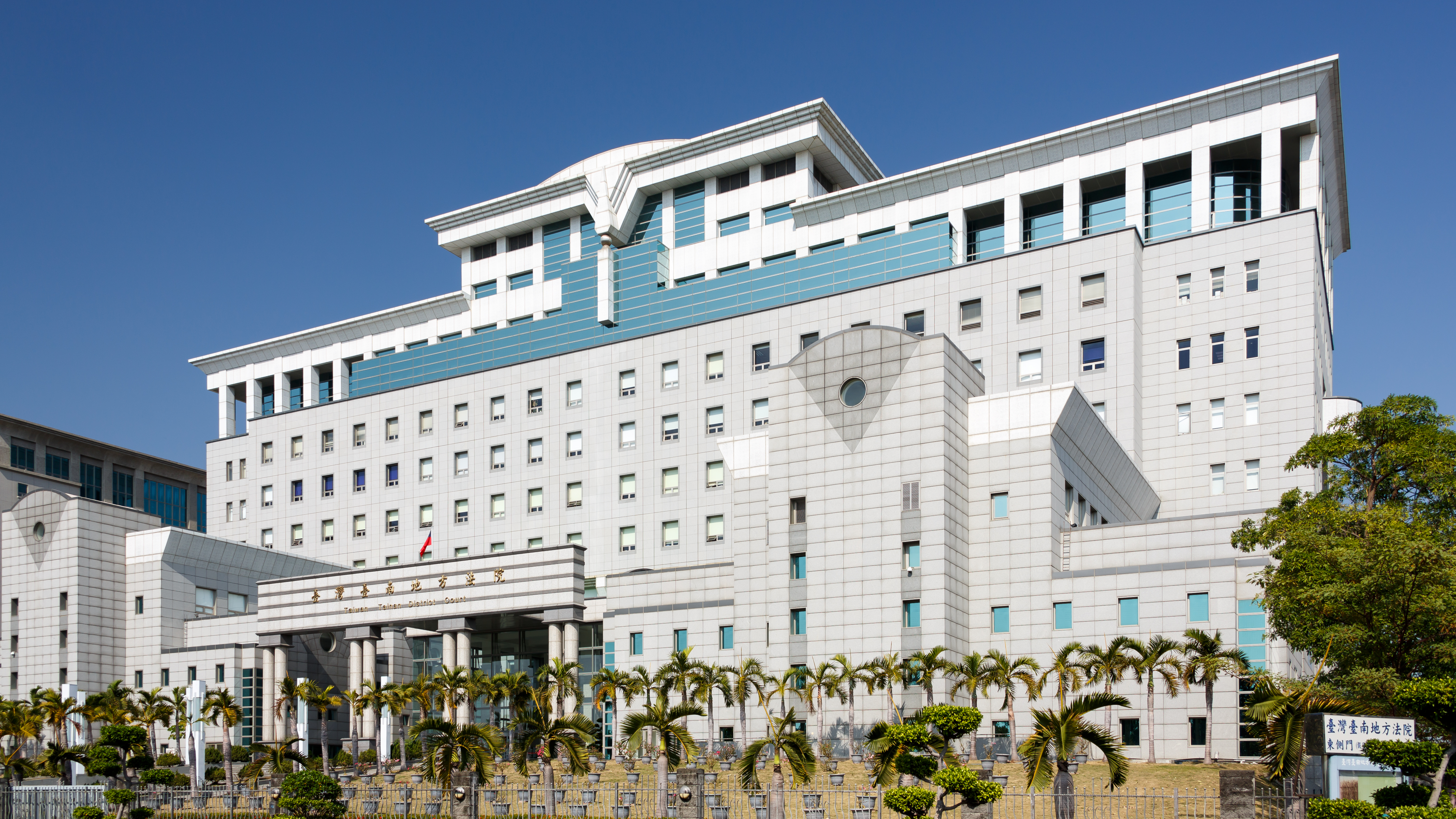 Tainan, Taiwan: Tainan District Court.